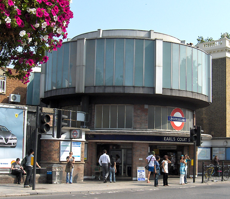 Earl's Court underground station, Exhibition Centre entrance (September 2006)